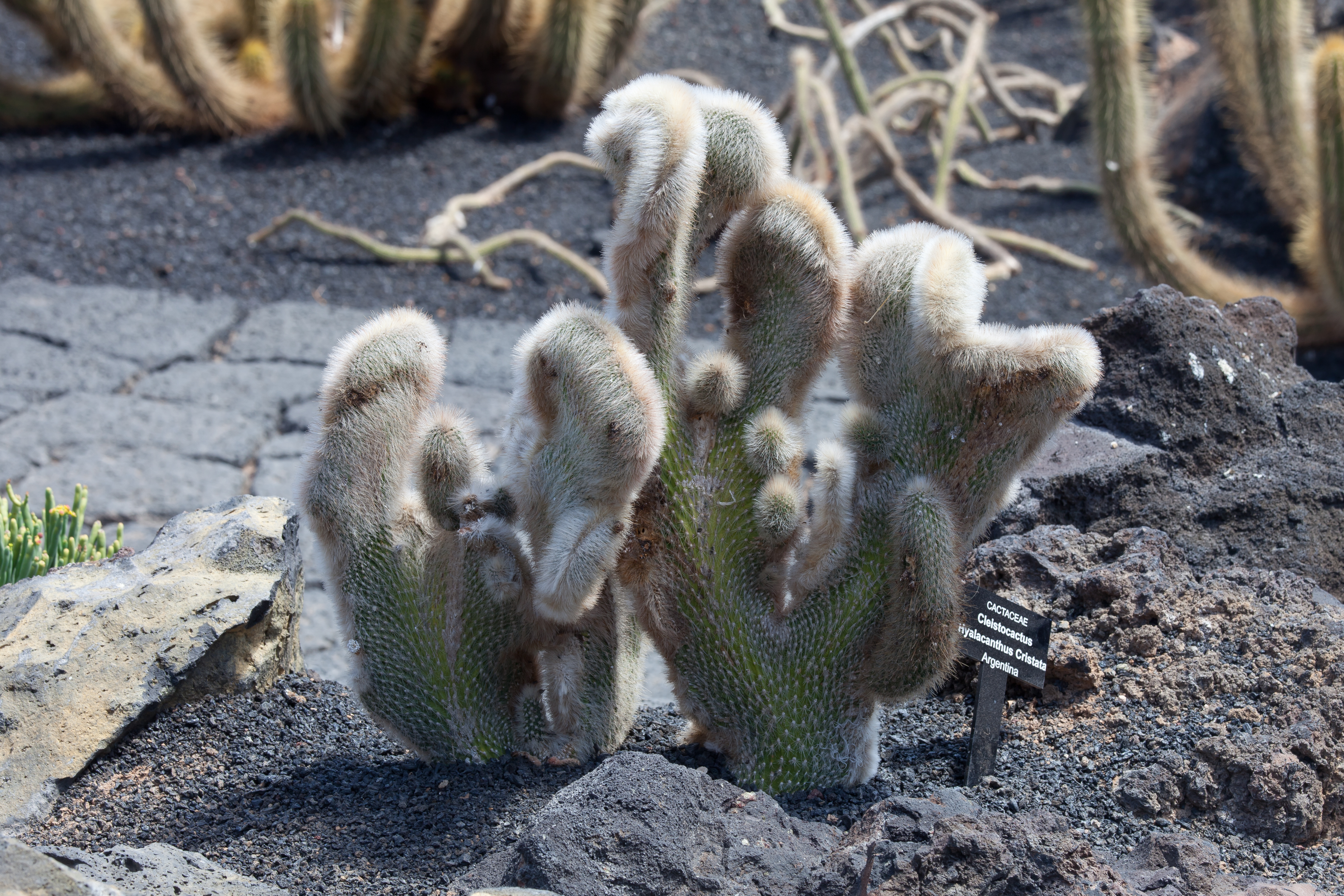 Cleistocactus hyalacanthus cristata . Jardín de Cactus, Lanzarote Determinada en por Pedro Sainz y Juan Bibiloni